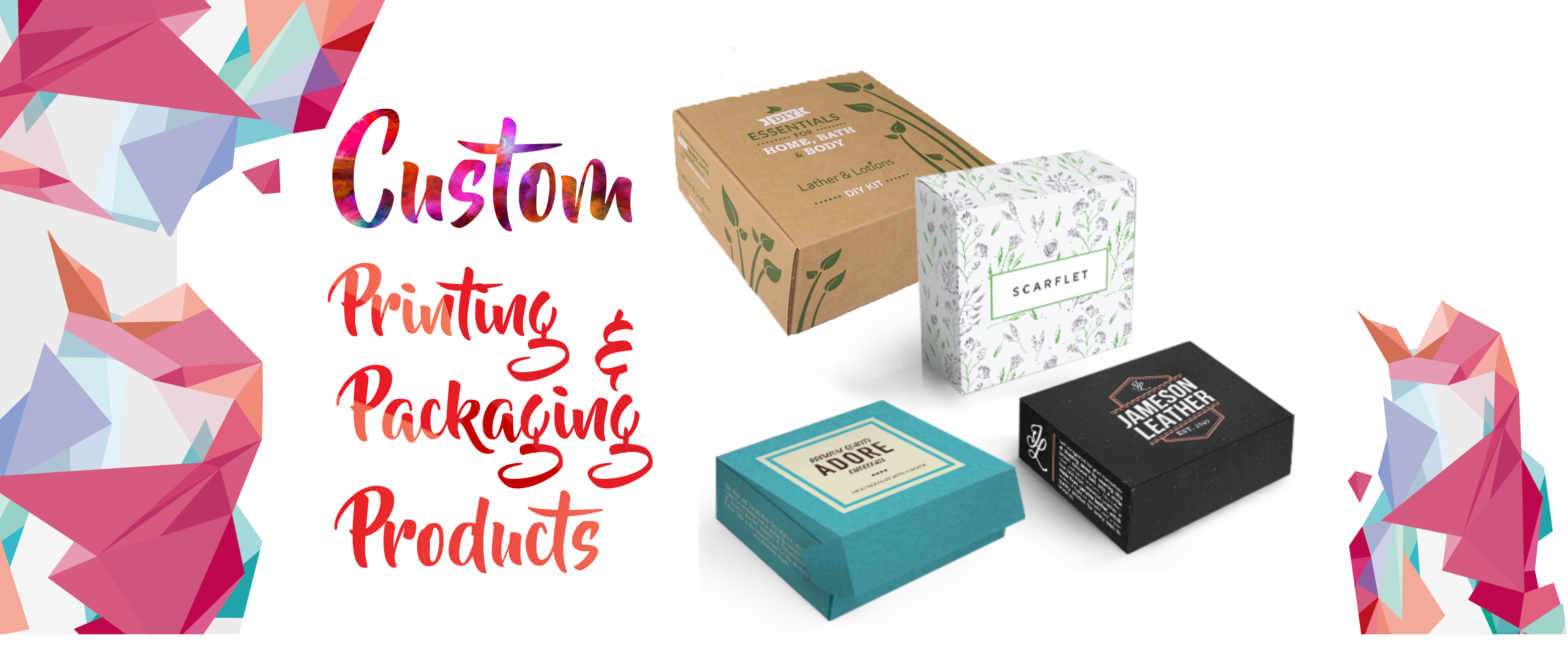 Custom Printing,Packaging and Designing